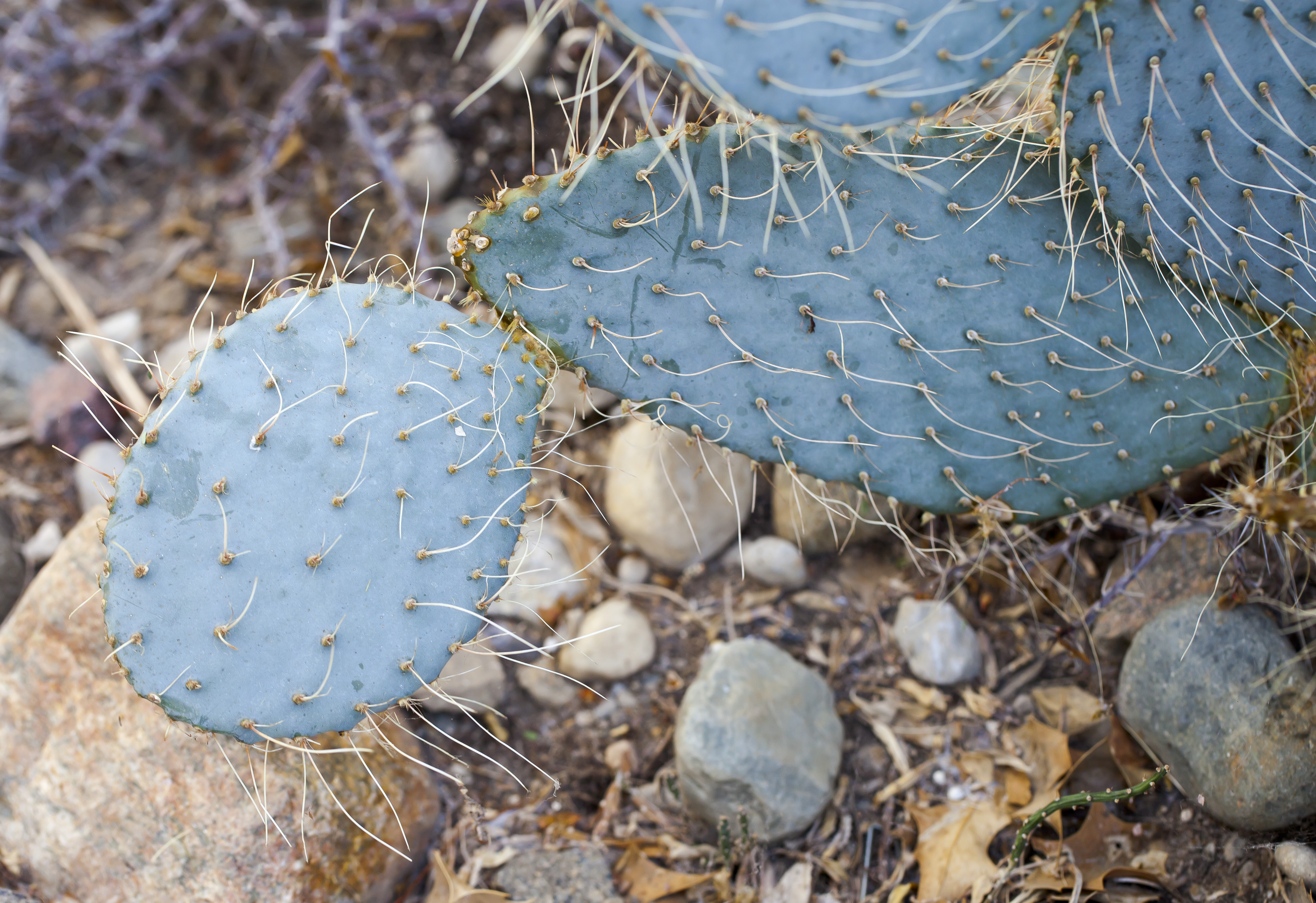 Opuntia polyacantha, Botanic Conservatory, Fort Wayne, USA